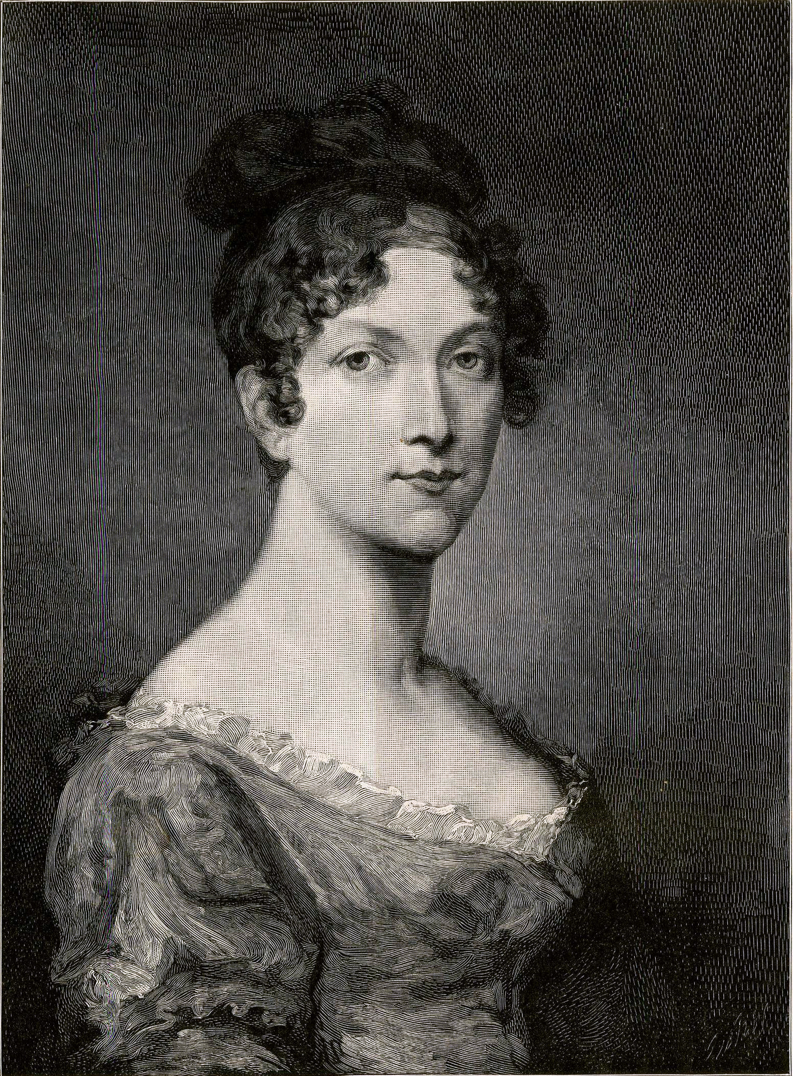 Elisa Bonaparte, Napoleon’s eldest sister. As Grand Duchess of Tuscany, she supported her brother’s desire to unify Italy under Bonapartist rule.